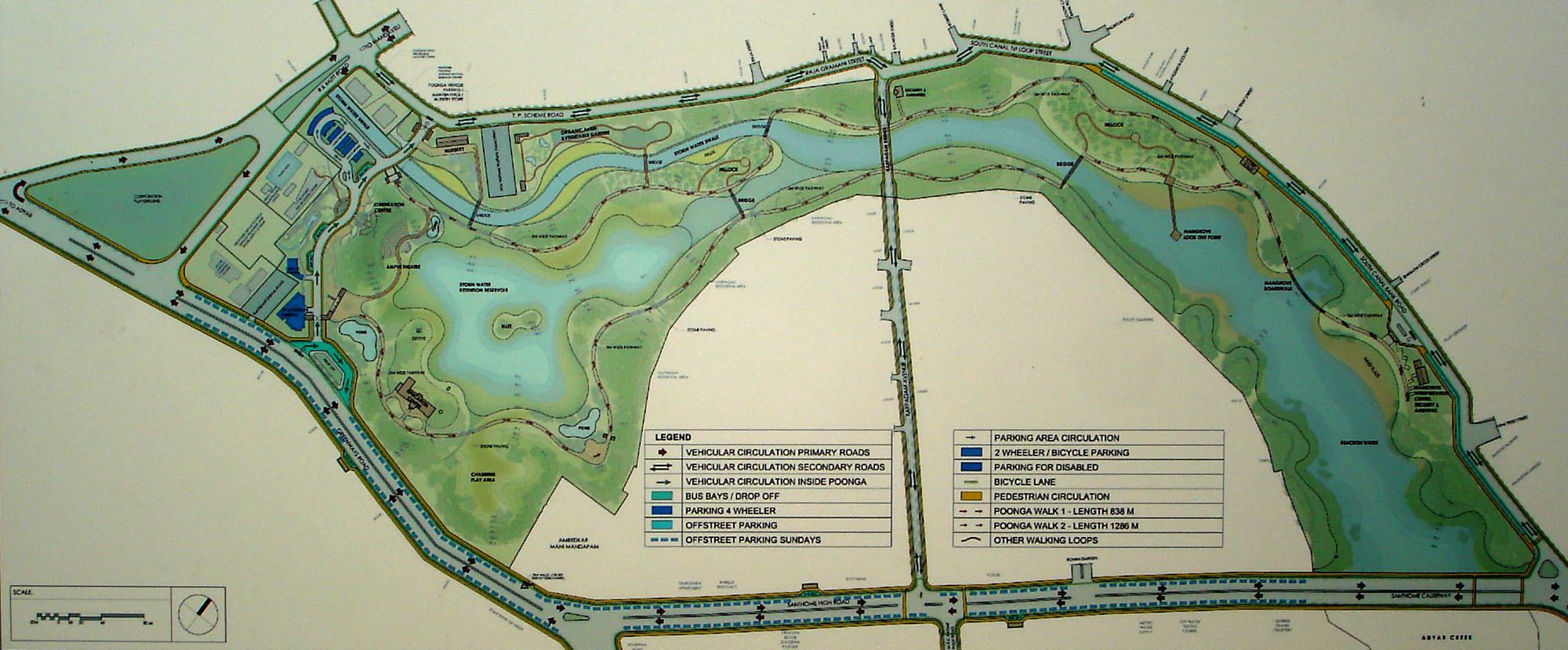 The masterplan of the Adayar Eco Creek Park, being developed at MRC Nagar, Chennai